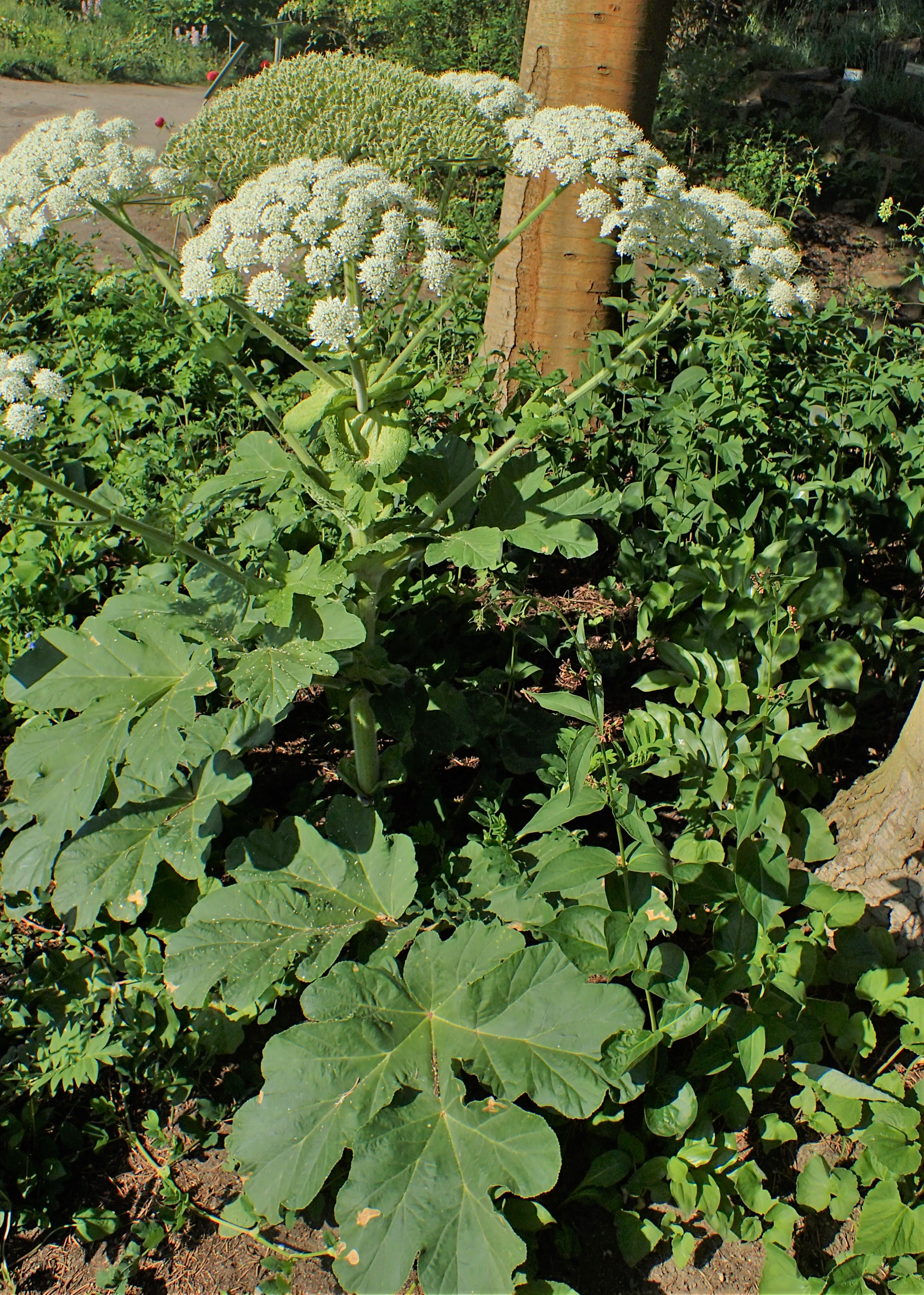 Heracleum platytaenium in the Botanischer Garten, Berlin-Dahlem